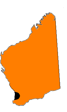 A map detailing the allotted ACMA license area of WIN Television Western Australia (orange).